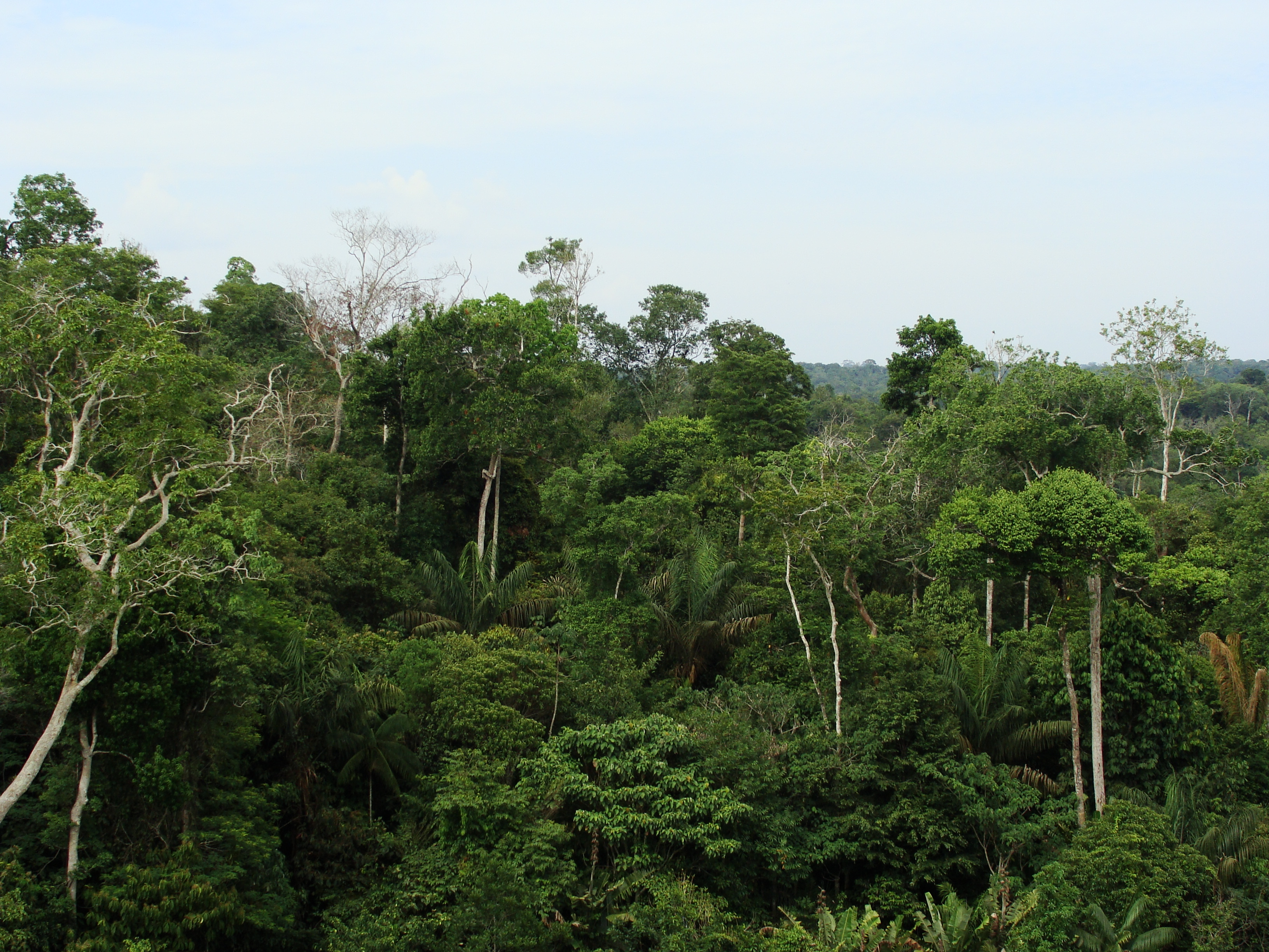 Rainforest canopy in Manuas, Brazil